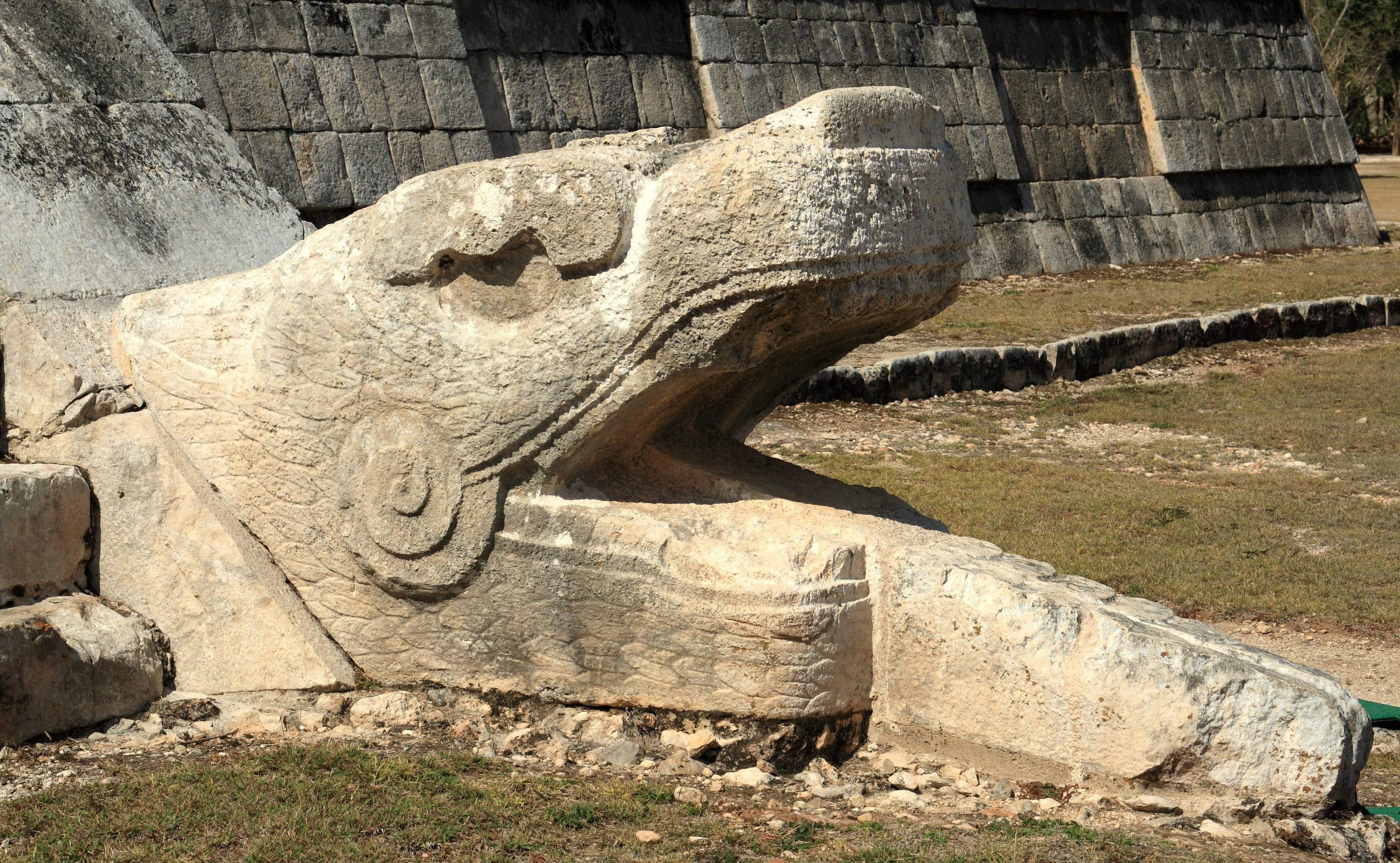 We visited Chichen Itza on a lovely day in March 2009. We got there before the tourist buses rolled in and had most of the site to ourselves for a few hours. This is my 3rd or 4th trip here and I still enjoy it even though you can't walk on any of the monuments any more. I'm still amazed by quality of the work, most of it done about 1,000 years ago. I'm amazed by all the astronomical precision of the buildings - I find it hard to believe that the builders of Chichen Itza didn't have outside (ET?) help, but that is just my humble opinion. If you have a chance to visit this great site - go!